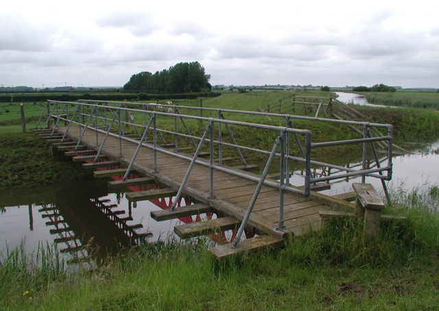 Arram Beck, east of Arram, East Riding of Yorkshire, England.Bridge over Arram Beck between the Beverley & Barmston Drain and the River Hull, with a stile at each end to prevent cattle wandering across. There's a bridleway here too - presumably horses are required either to jump the barriers on the bridge or take the plunge into the beck.